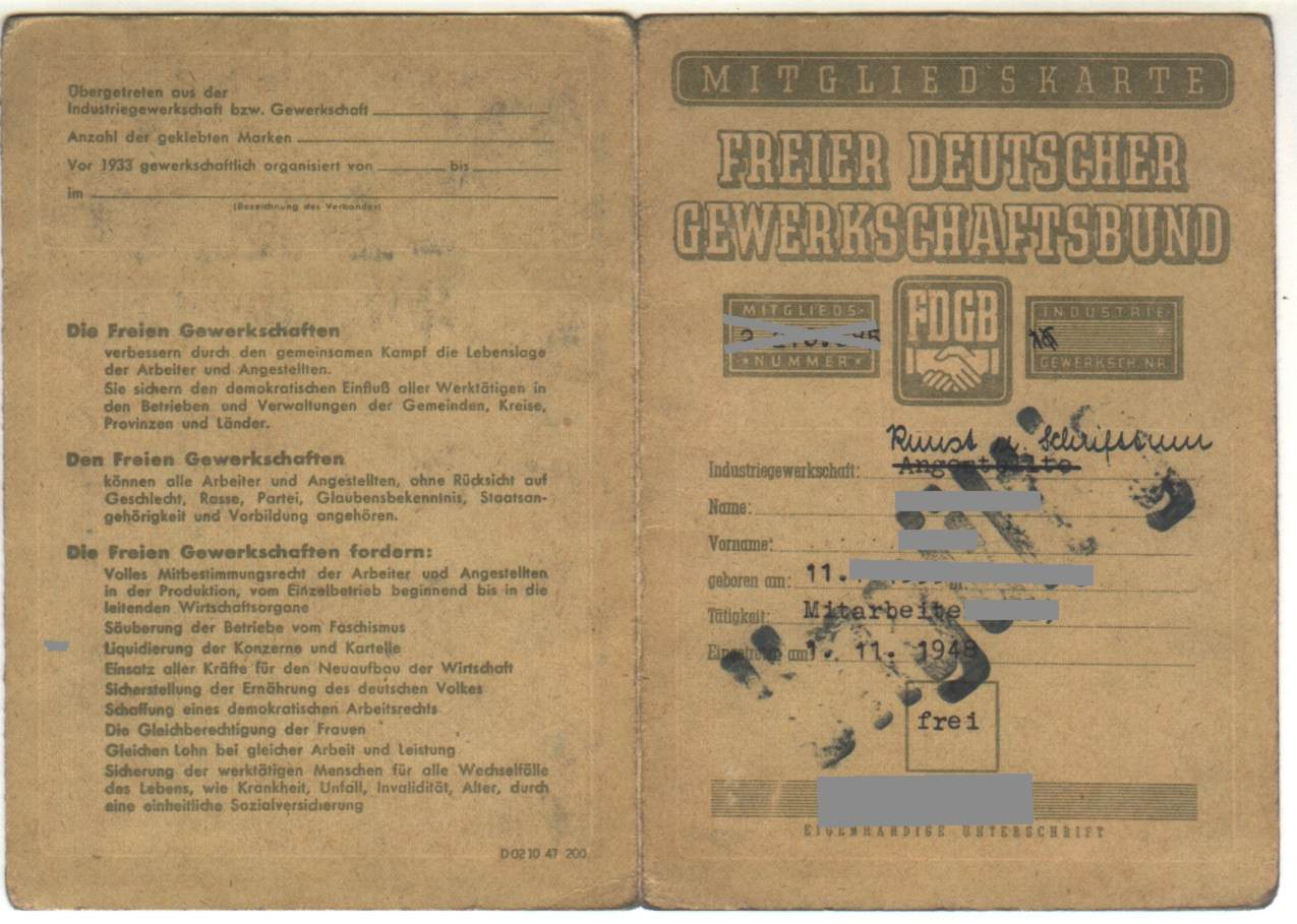 Exteriors of Member's card of Free Confederation of German Trade Unions from 1948